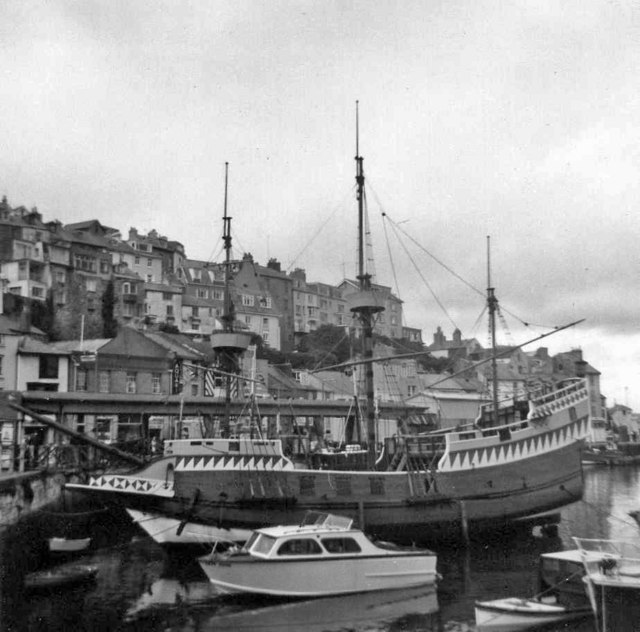 The Golden Hind Museum Ship, Brixham Harbour, Devon, taken 1968